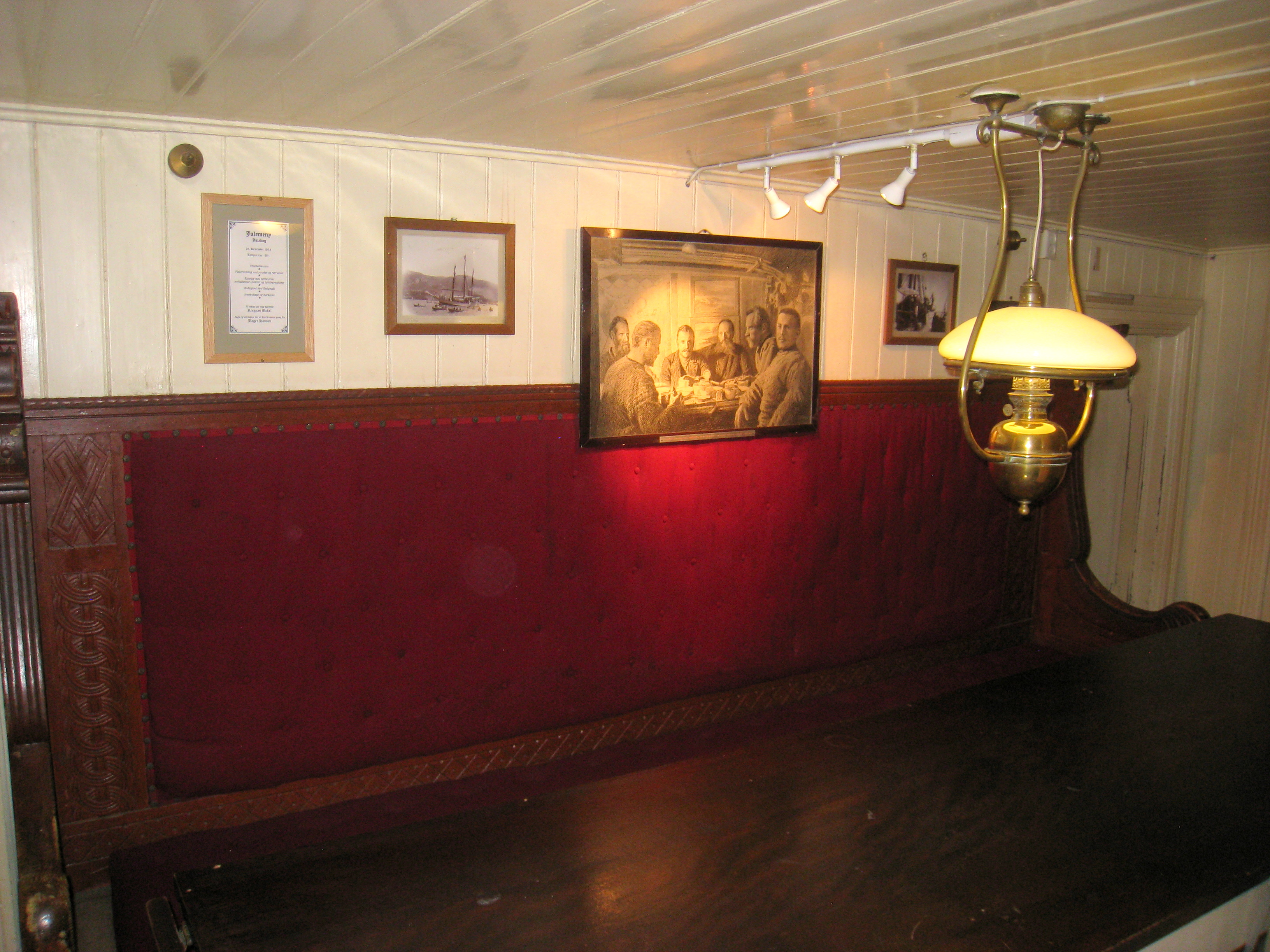 Fram (historic ship) in the Fram Museum, Oslo, Norway.